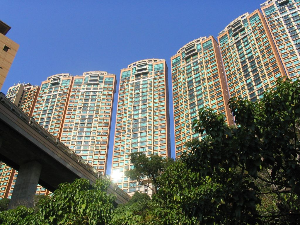 禮頓山 The Leighton Hill